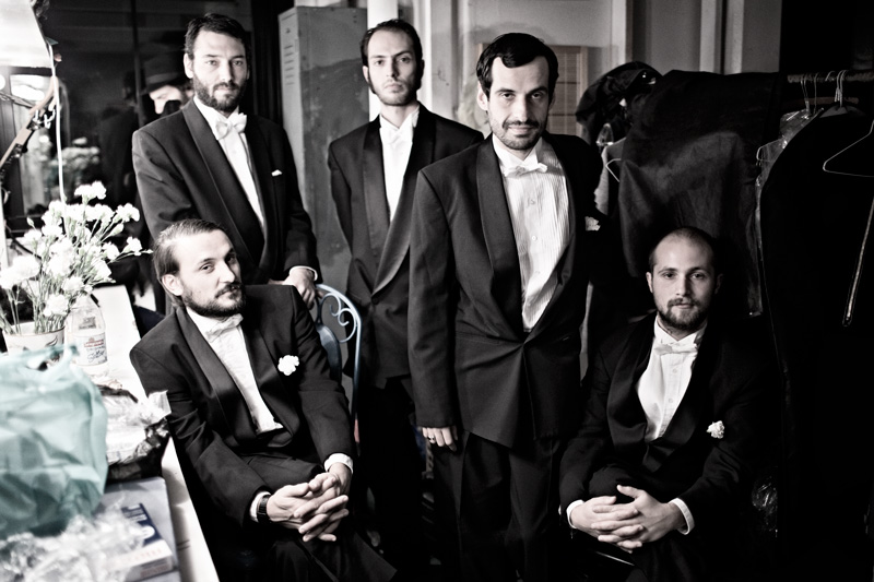 PERFORMA 09 New York 2009, from left to right: Alberto Caffarelli, Paololuca Babieri Marchi, Giacomo Porfiri, Andrea Masu, Matteo Erenbourg.